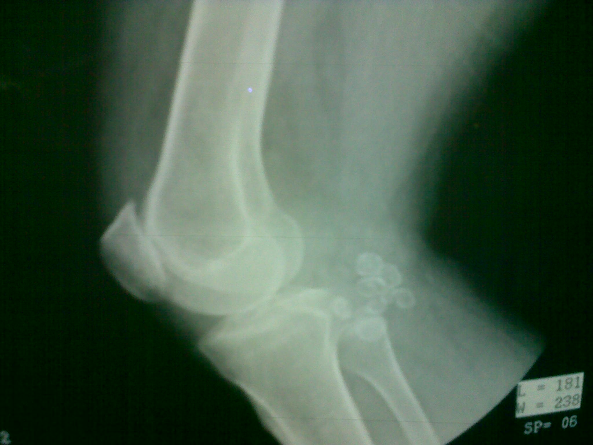 Plain X-Ray knee joint